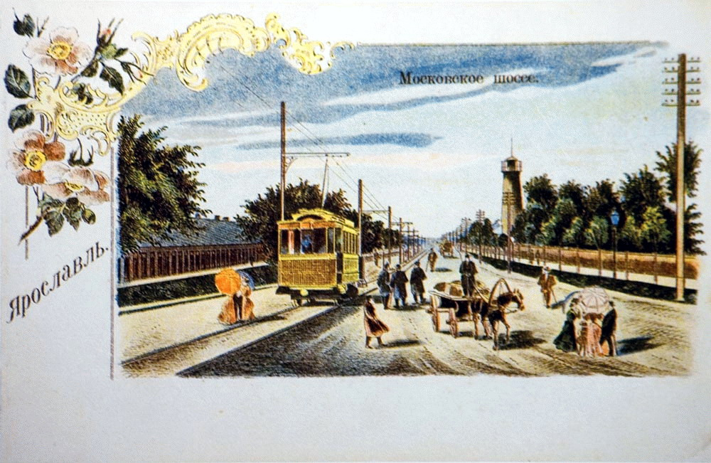 Moscow Highway